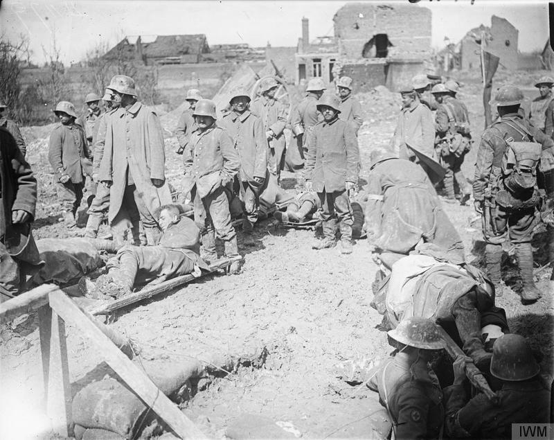 The Battle of Arras, April-may 1917 German prisoners acting as stretcher bearers for British and German wounded soldiers, 9 April 1917.